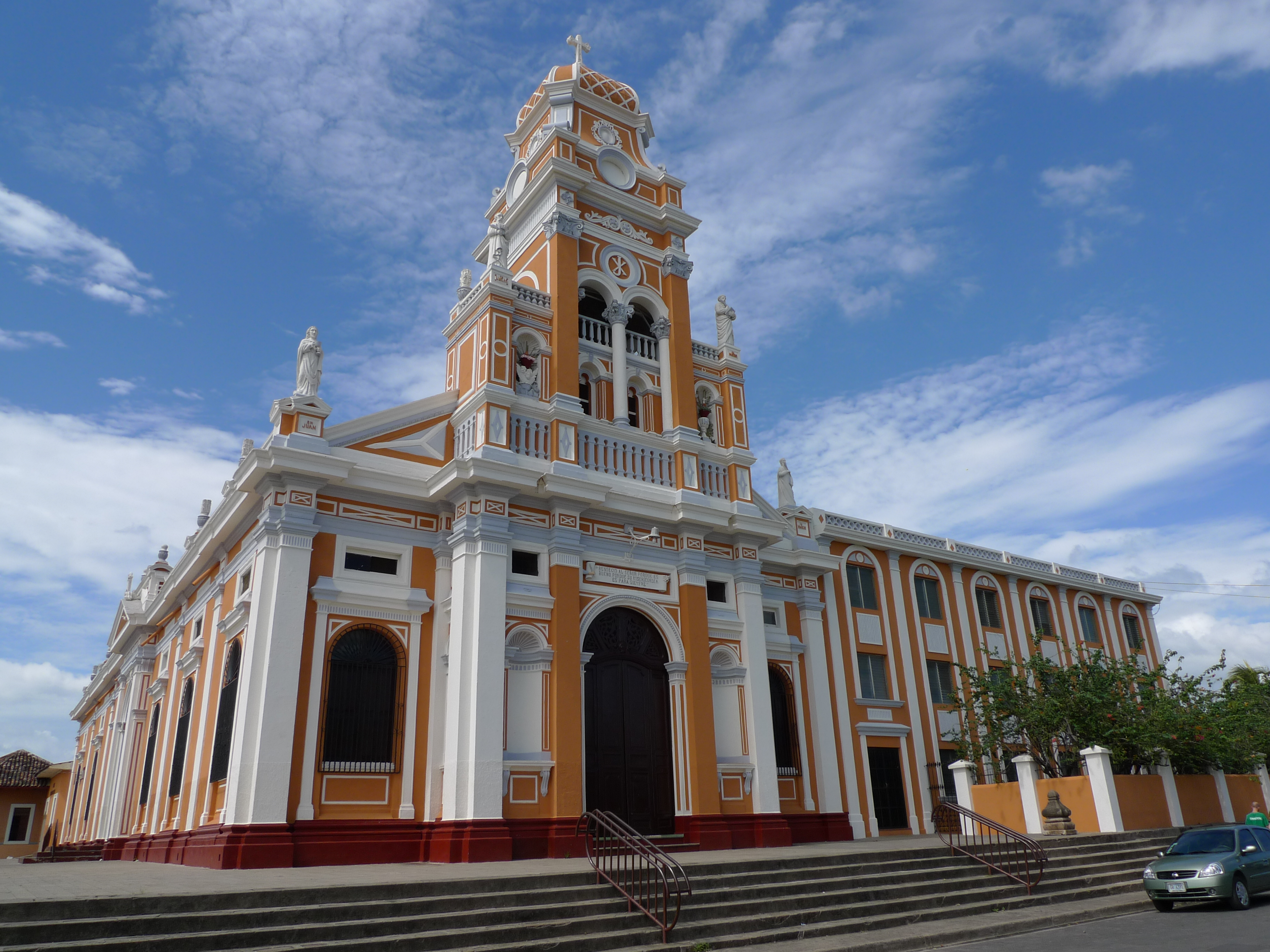 Building in Granada, Nicaragua